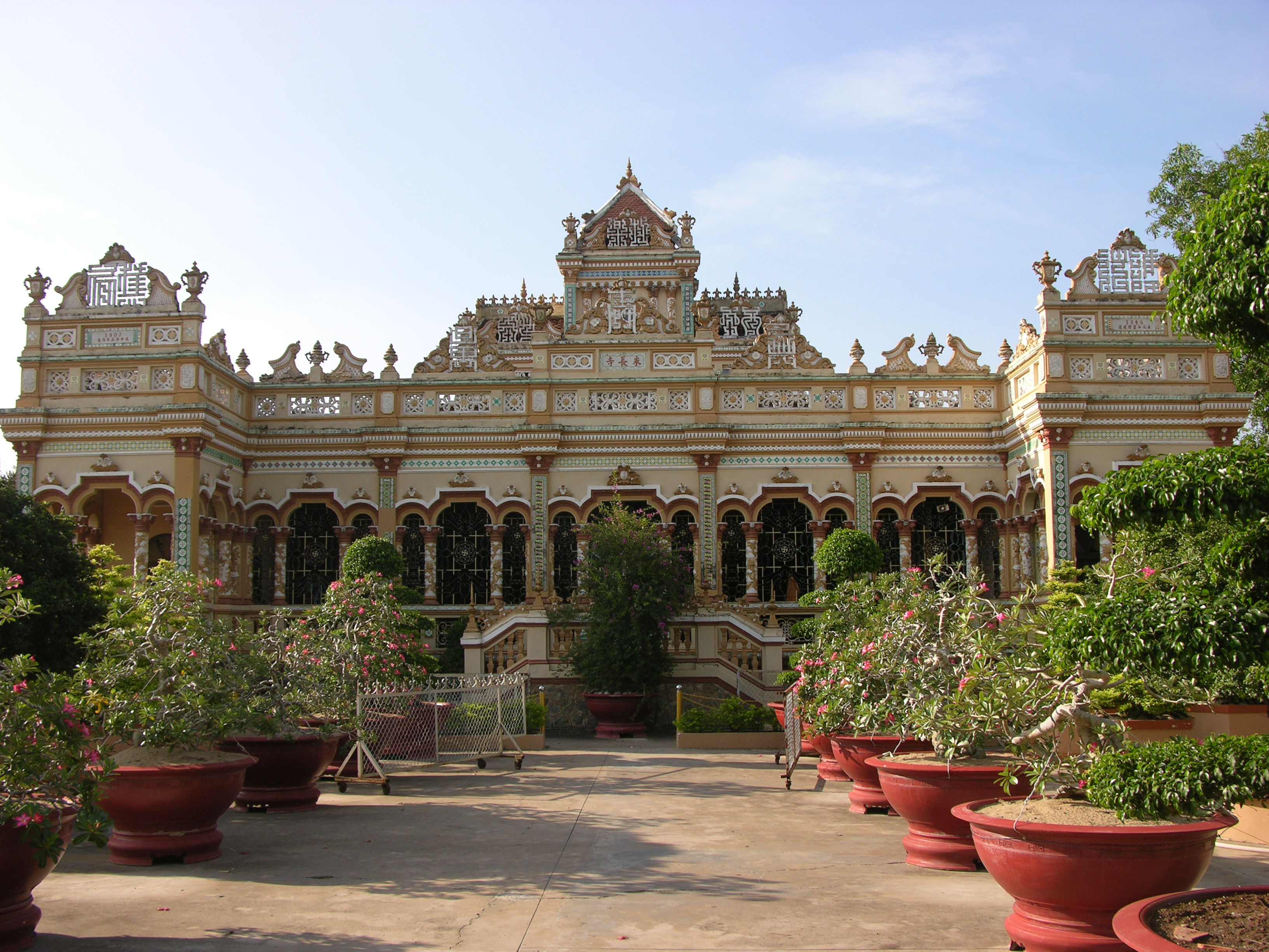 Front view of Vinh Trang pagoda in My Tho, Tien Giang, Vietnam.